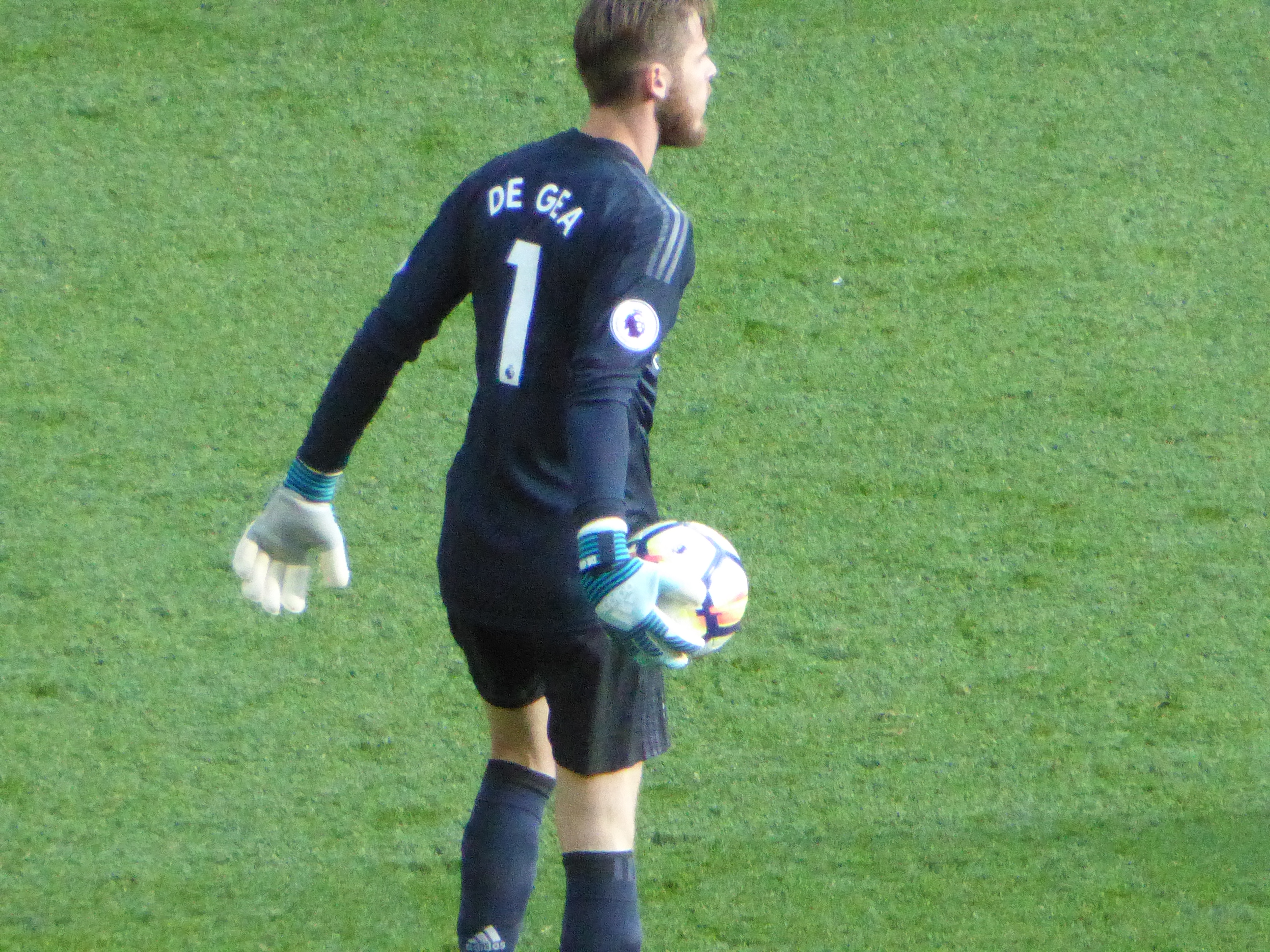 Manchester United v Leicester City (2-0), Premier League, Old Trafford, Manchester, Greater Manchester, England, 26 August 2017